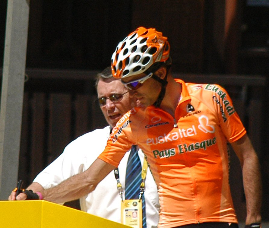 Haimar Zubeldia at the start of stage 8 in Le Grand Bornand, Tour de France 2007.